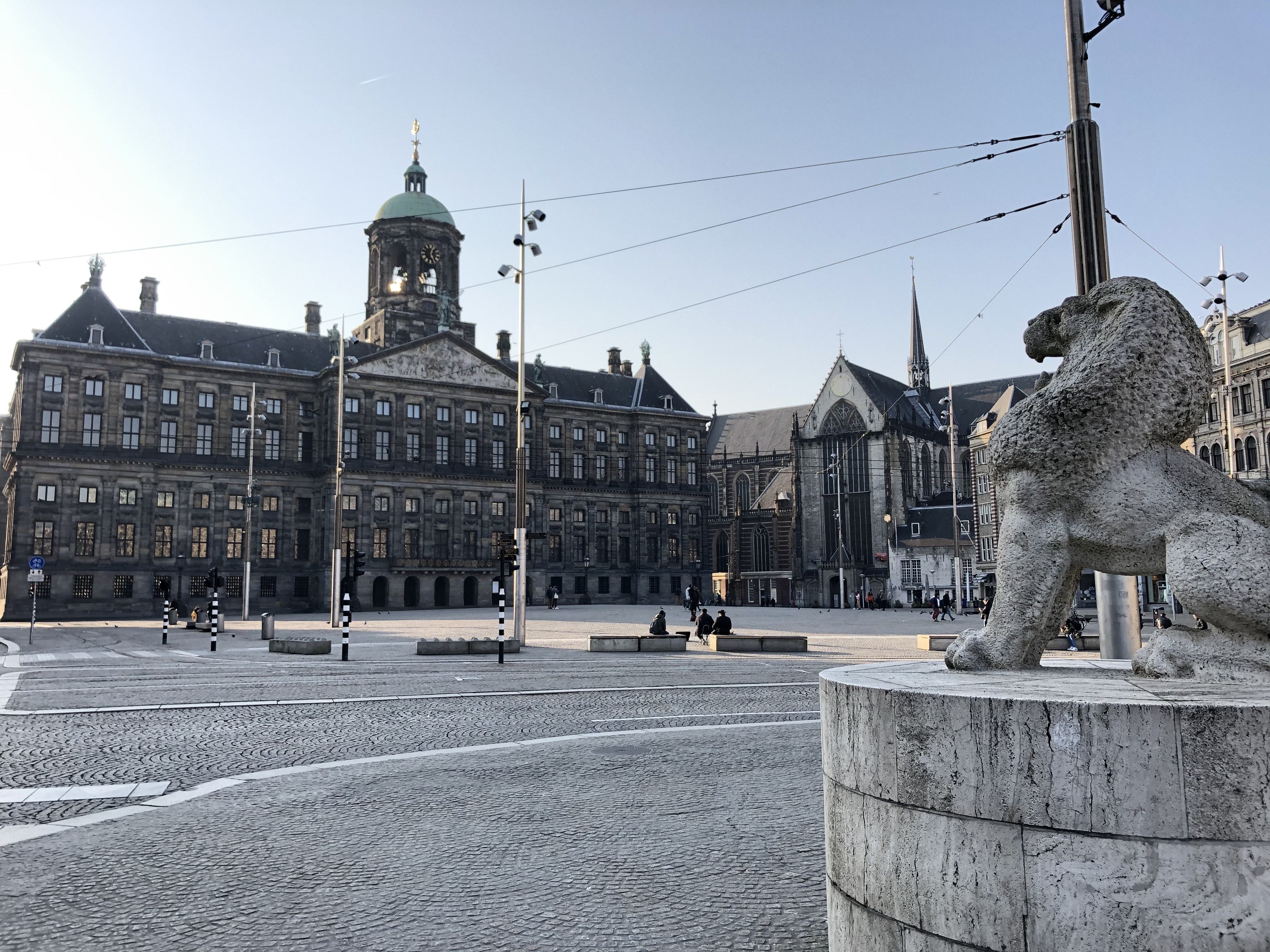 The palace on Dam square in Amsterdam, the Netherlands. Photograph taken during the COVID-19 / Corona pandemic. Photo taken during a late Friday afternoon when it's usually very busy on the streets.